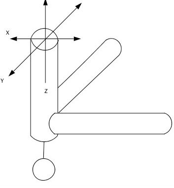 Tripod piezo assembly diagram